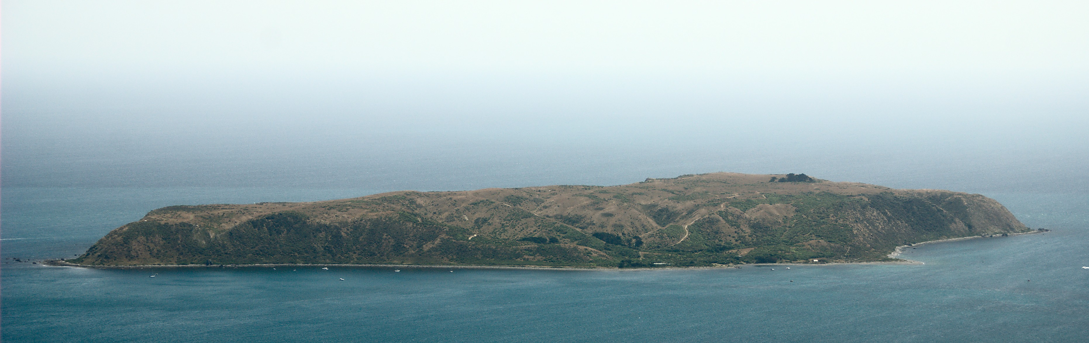 Mana Island, New Zealand viewed from Colonial Knob. This image has been cropped to remove the foreground and processed from the original raw image file (using ufraw) to enhance the contrast, since it was taken on a very hazy day.